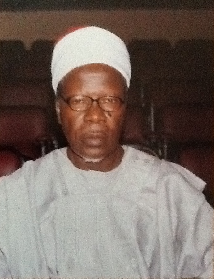 Prof. Oseni in 2013